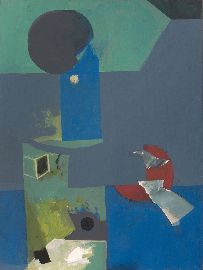 Happiness 1